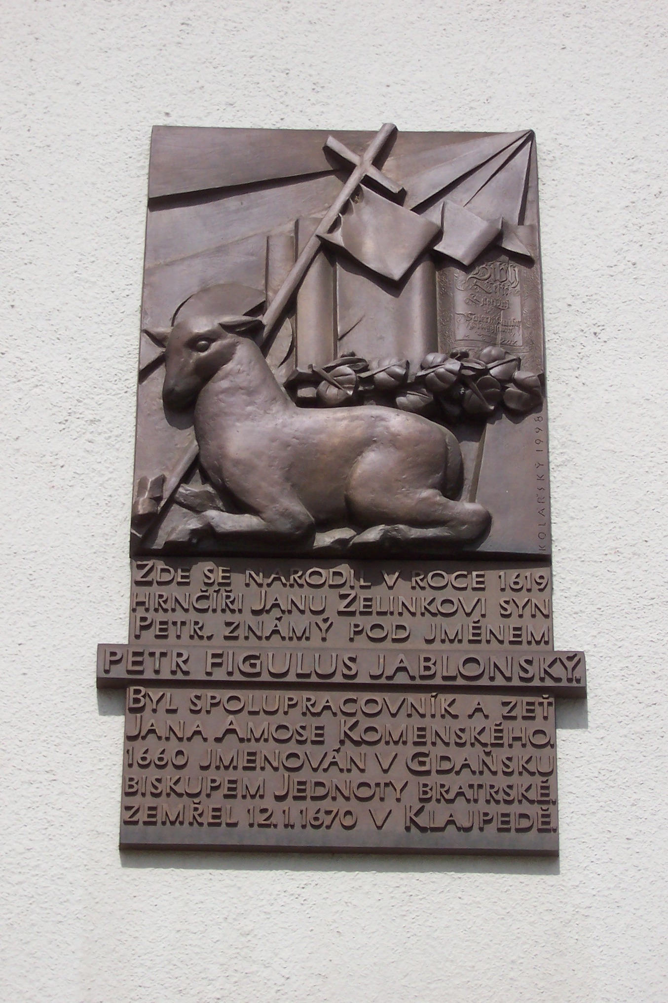 Memorial of Petr Figulus Jablonský